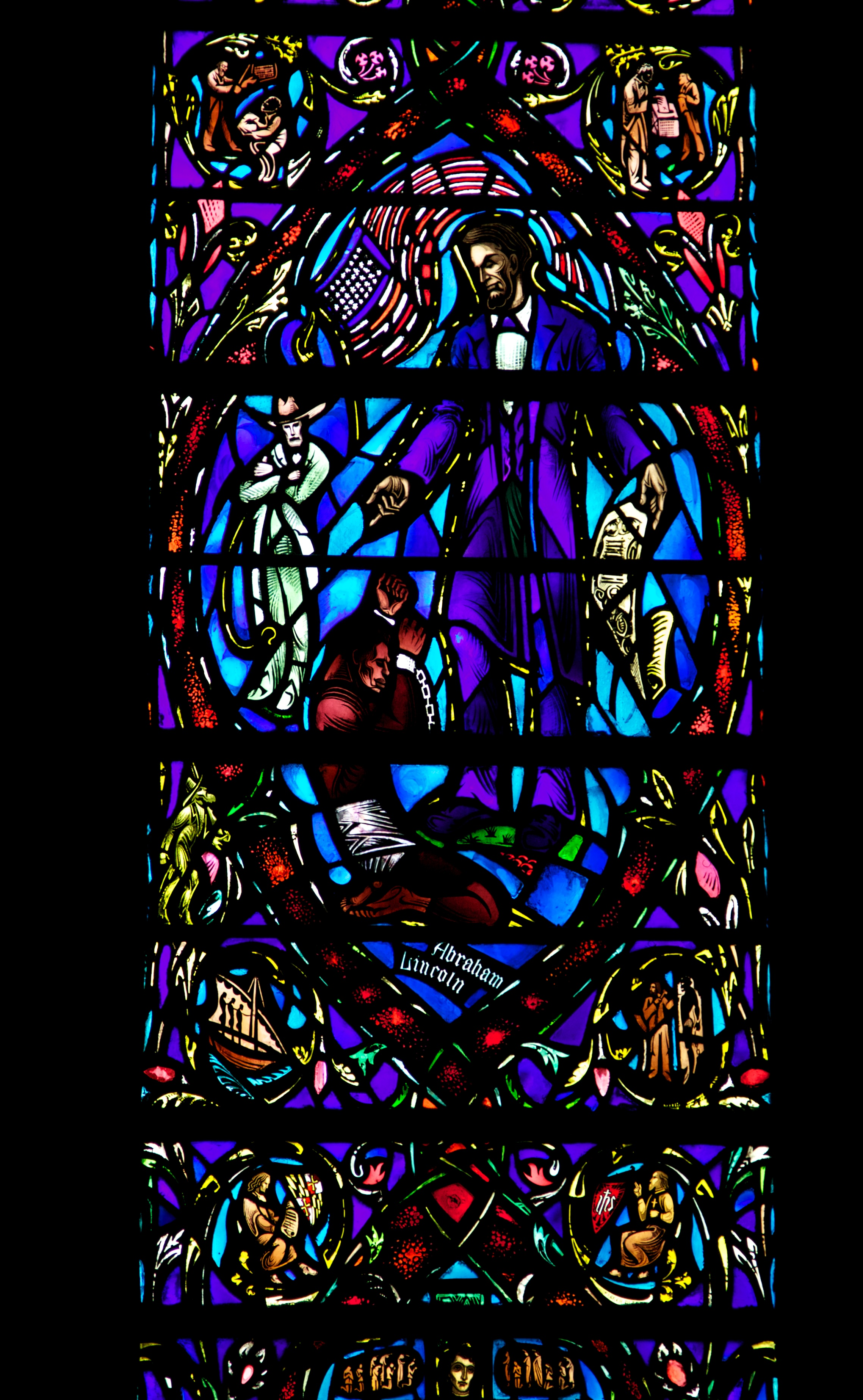 Abraham Lincoln stained glass window in the Heinz Memorial Chapel at the University of Pitssburgh. The chapel is filled with a great number of spectacular windows.